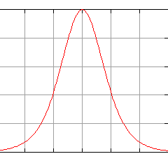 A curve for modification variability